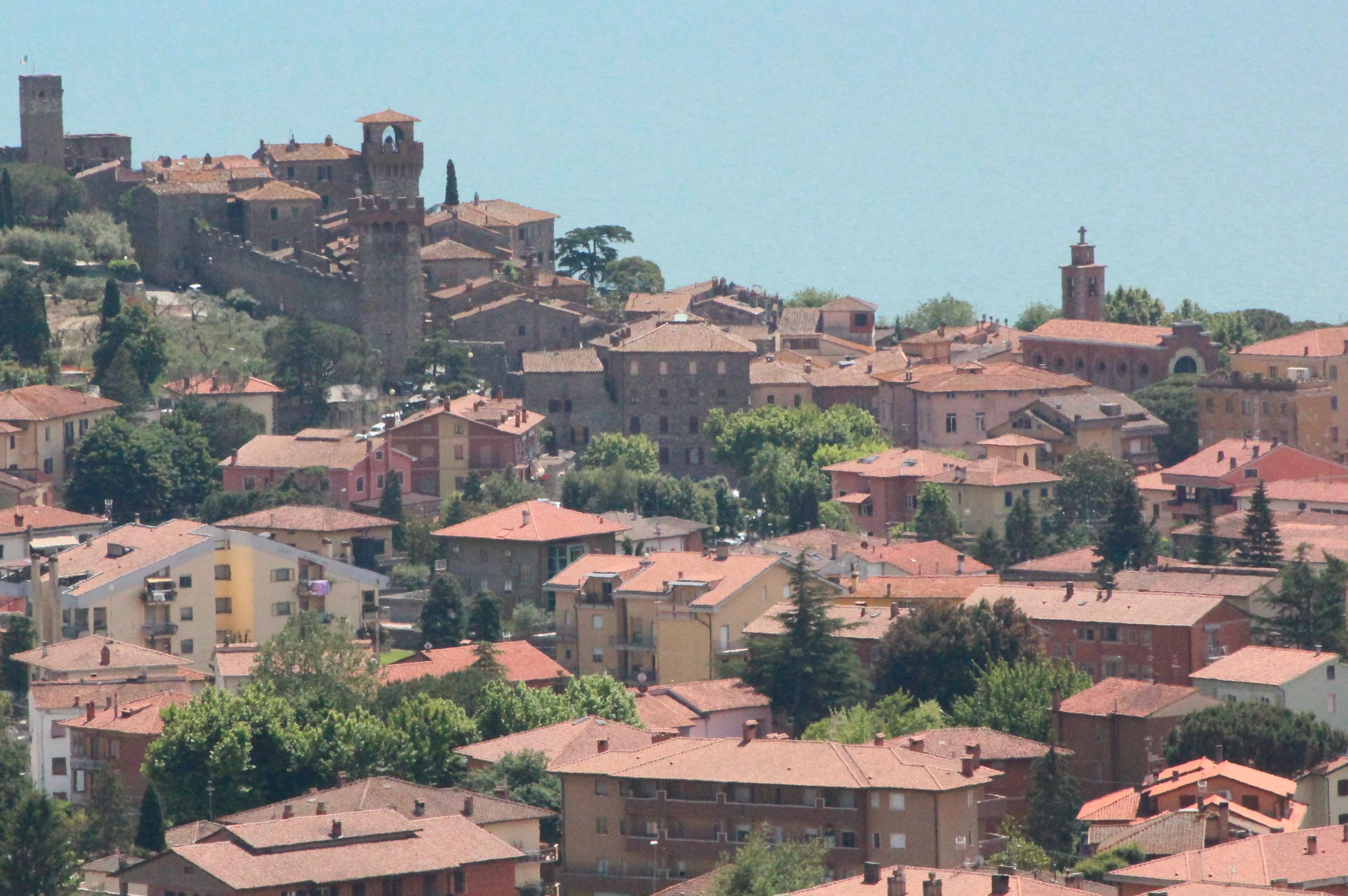 Panorama of Passignano sul Trasimeno, Province of Perugia, Umbria, Italy